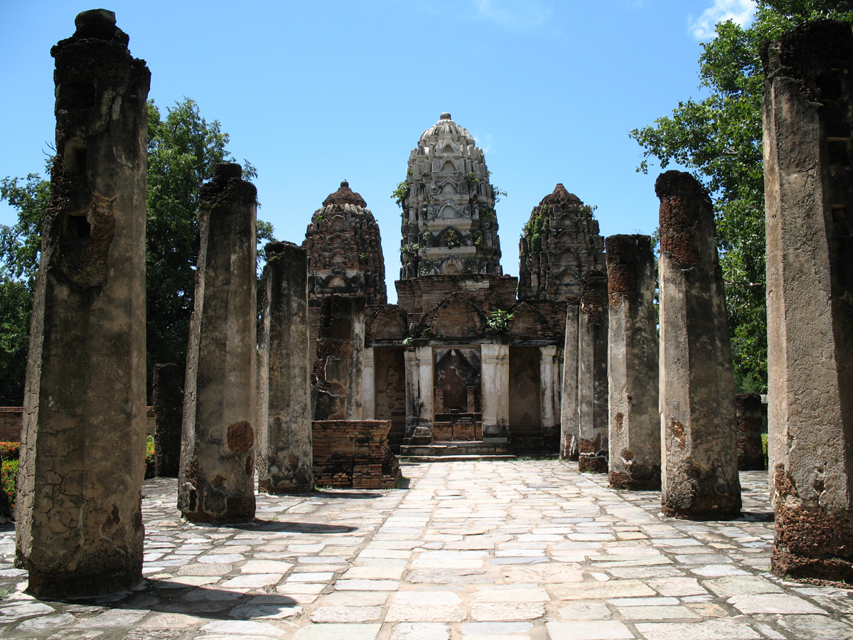 Wat Si Sawan, Sukhothai National Historical Park .